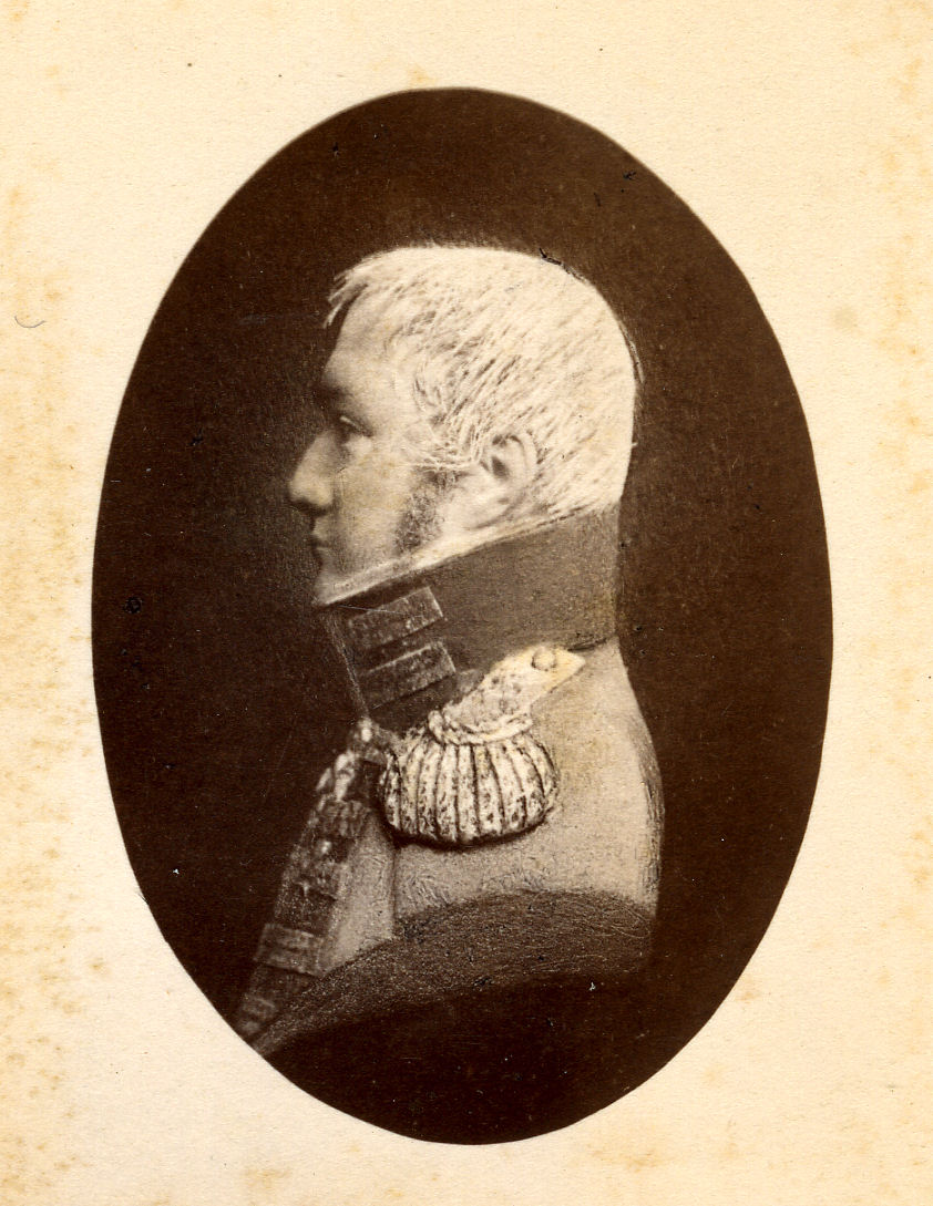 19th century photograph of a portrait bust of Karl Friedrich Freiherr von Kerner (1775–1840). It is likely that the bust was placed in Ludwigsburg, but as the photograph was taken by a Hamburg studio it may well be a copy of an earlier photo